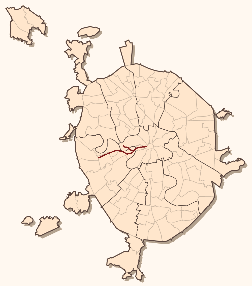 Map of Filyovskaya line of Moscow Metro on Moscow map